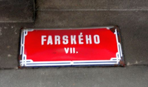 Holešovice, Prague, the Czech Republic. A street sign.